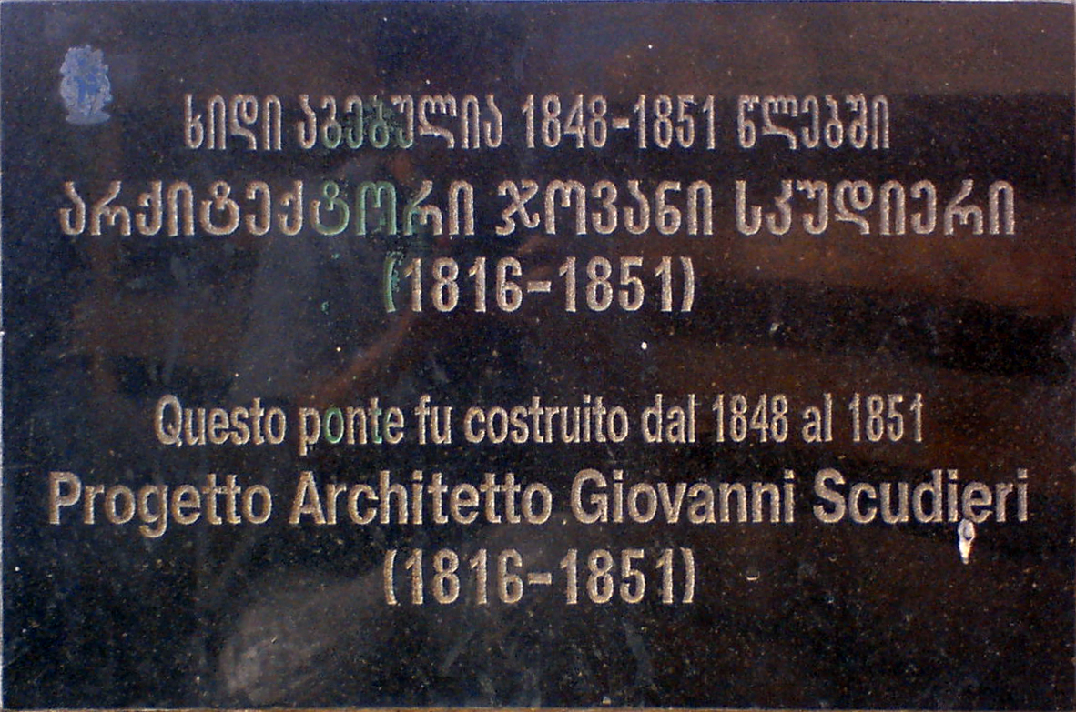 "Mshrali khidi" (Dry bridge) bilingual construction signboard, Tbilisi, Georgia.